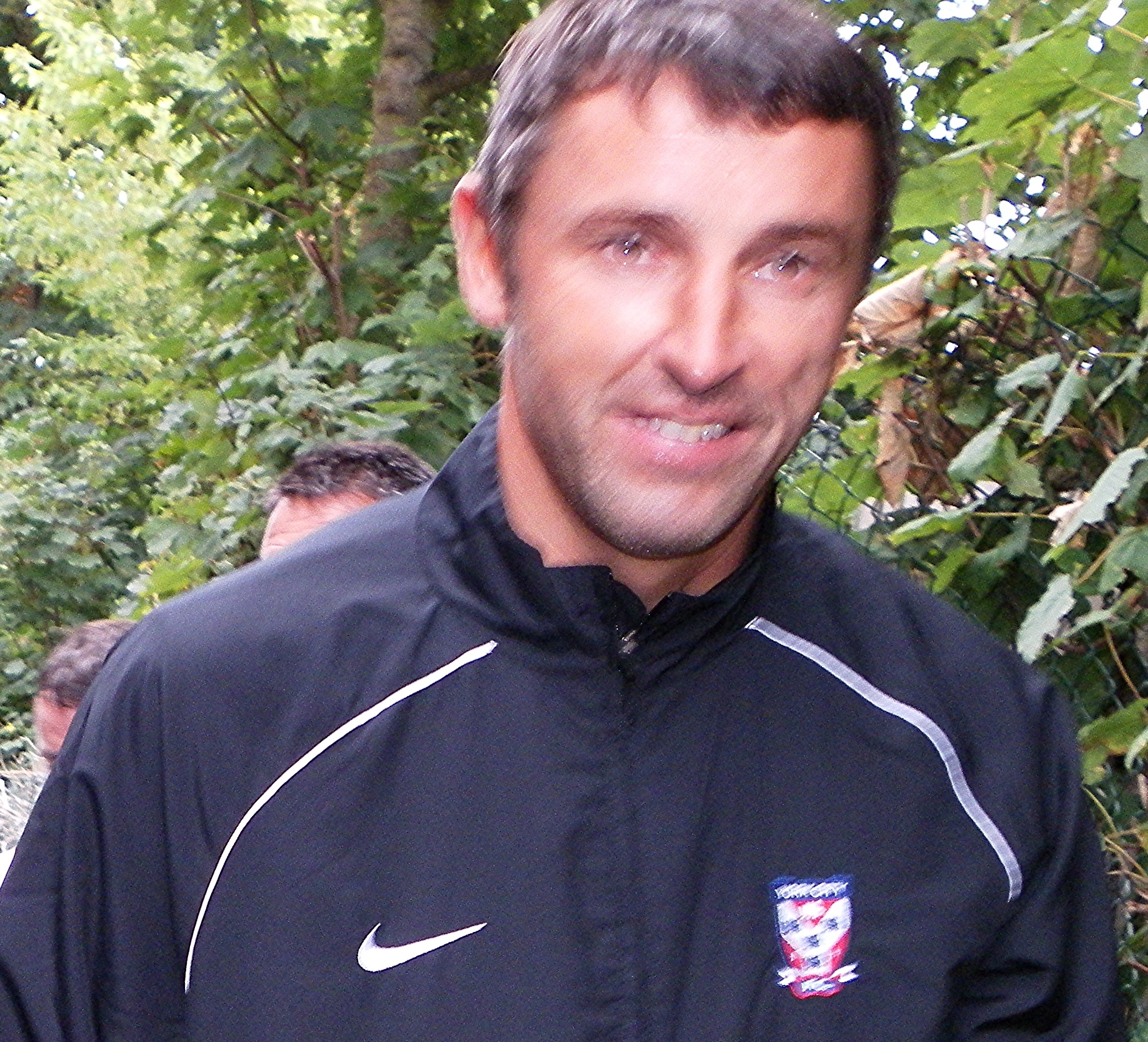 Steve Torpey after York City's match against Bristol Rovers at the Memorial Stadium, Bristol on 24 August 2013